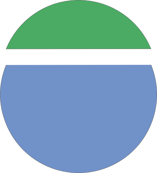 Two circle segments.